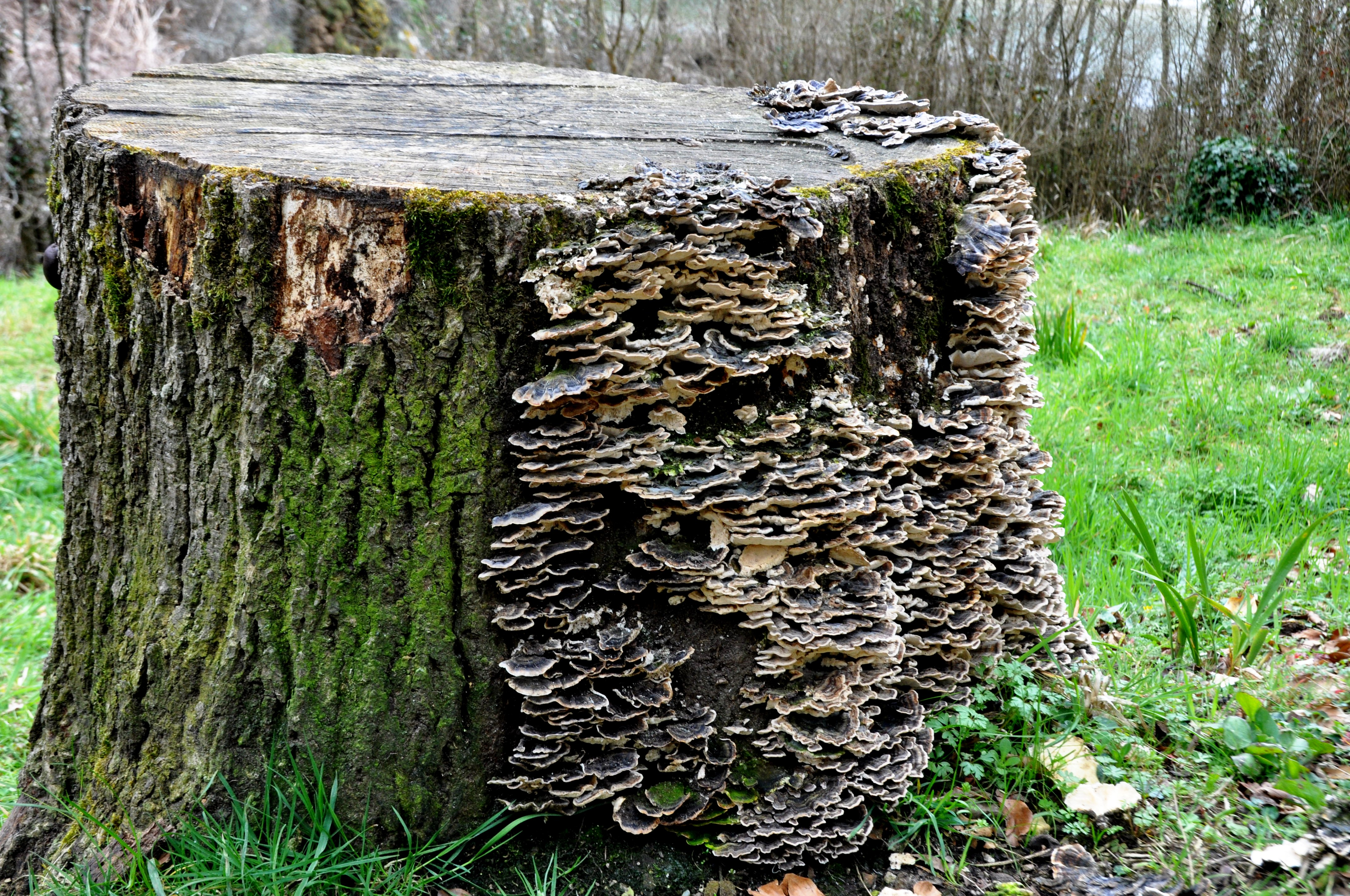 Fungus in a Wood